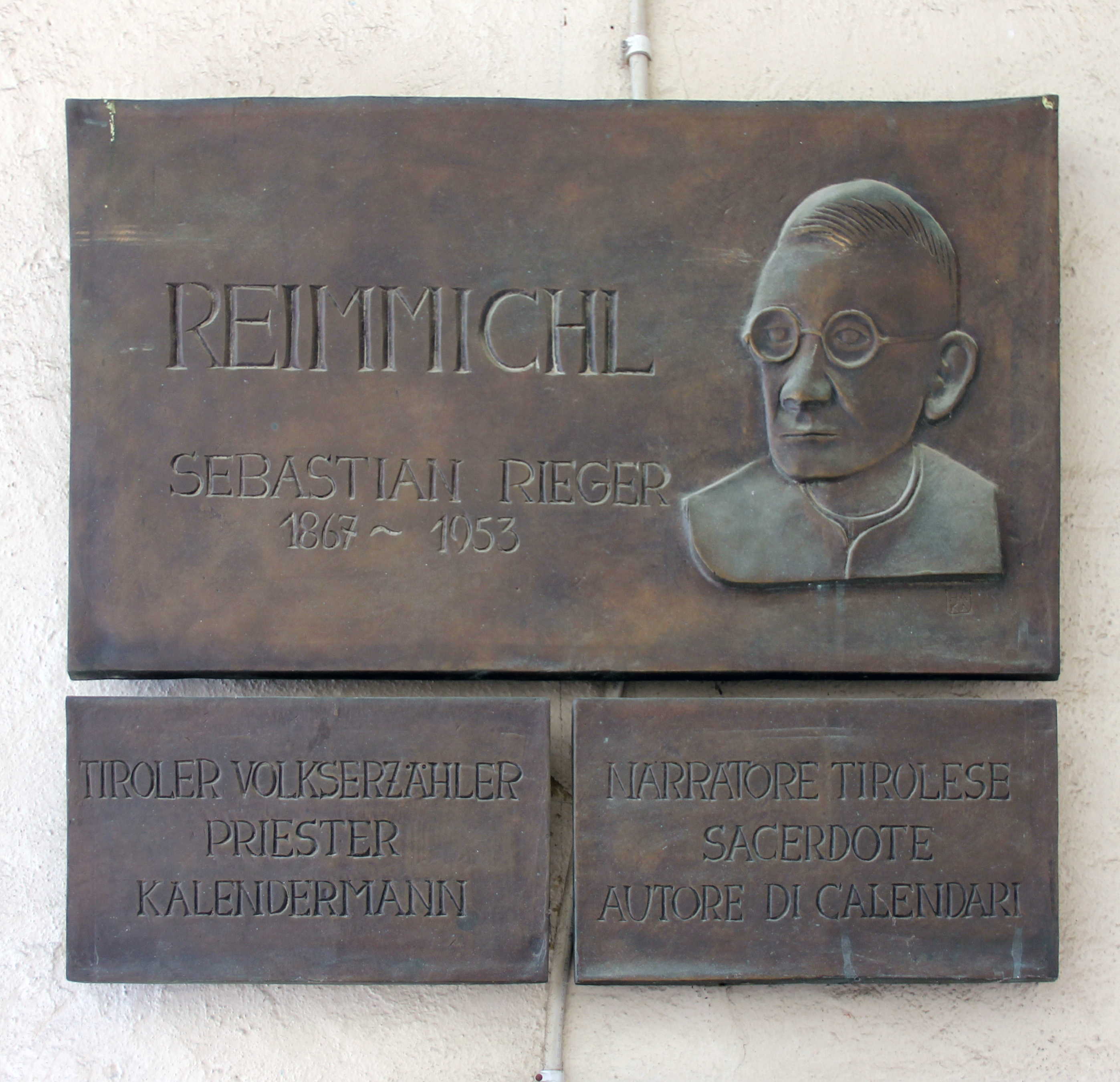 Memorial plaque, Sebastian Rieger, Pfarrplatz, Brixen, Italy